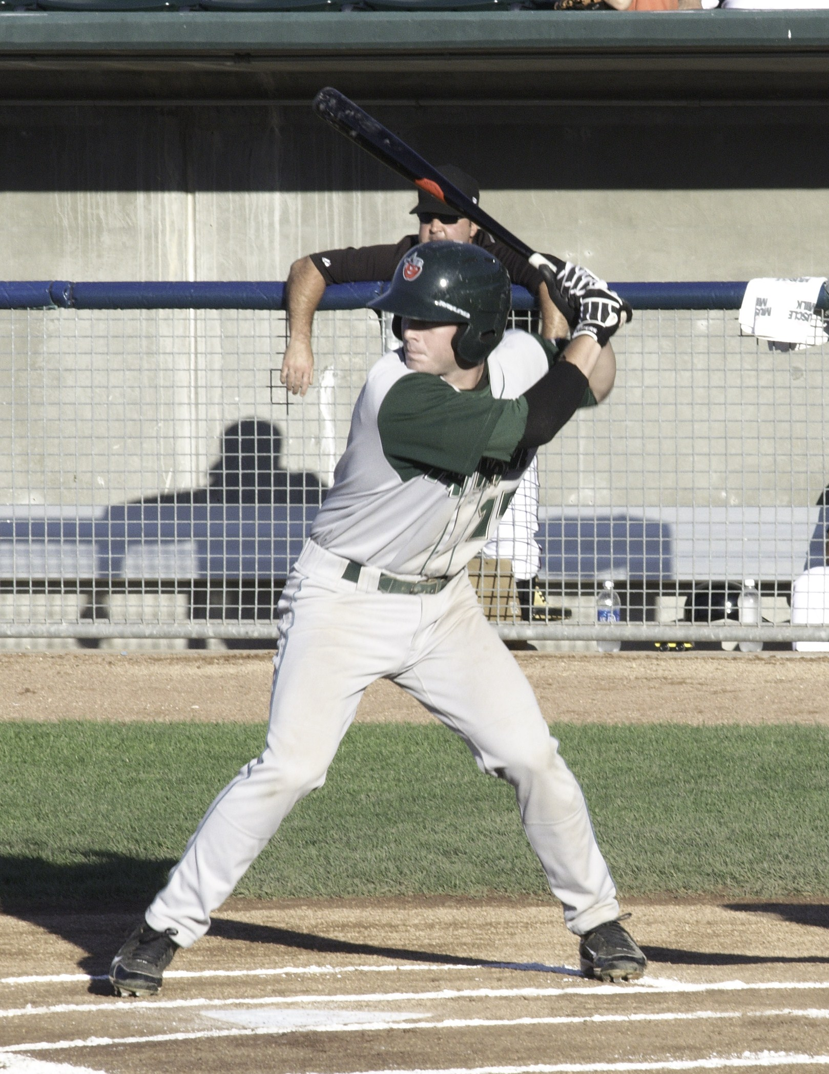 Fort Wayne @ Lansing 08152011